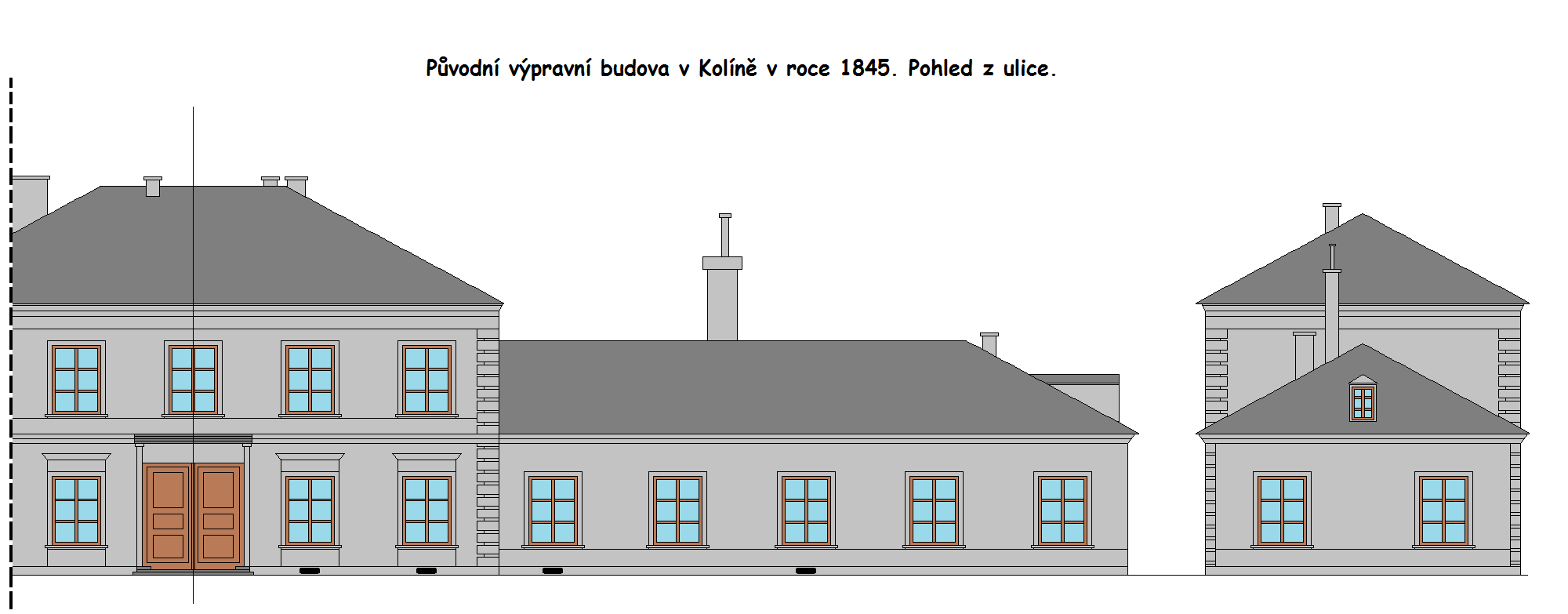 The nonexistent railway station in Kolín. Built in 1845. Was found at the same place, what the present station Kolín.